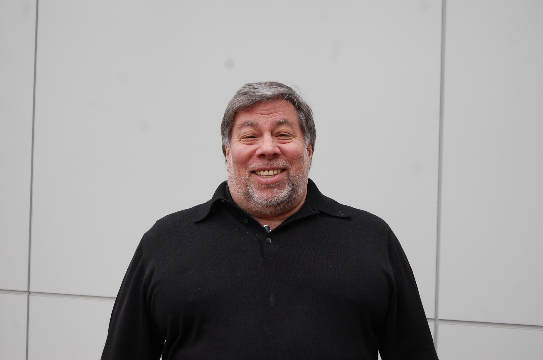 Steve Wozniak at the opening event of Computer History Museum's Revolution exhibition